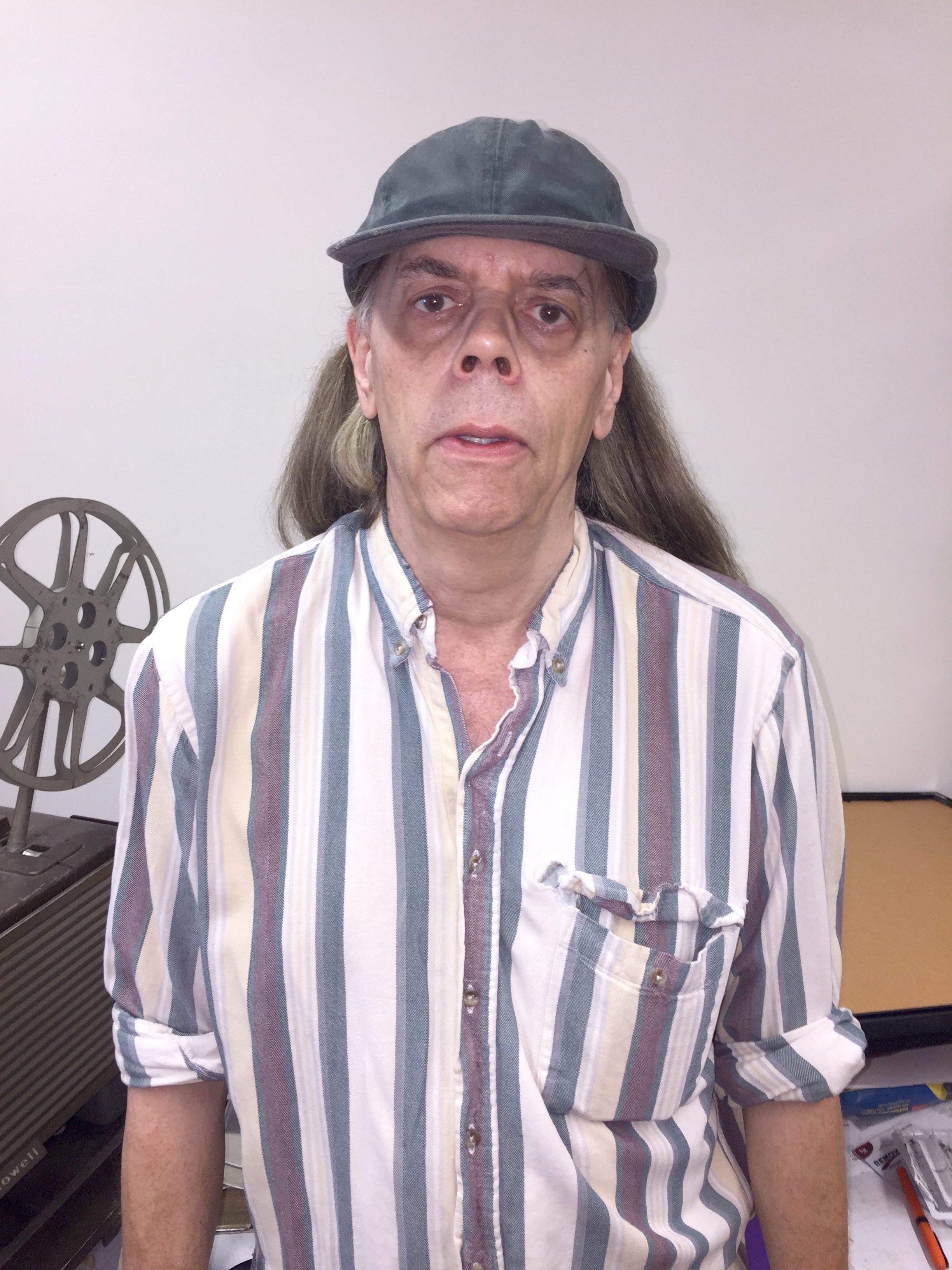 Greg Ford at his office.